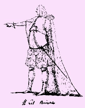 Picture of italian opera singer Fracesco Borosini (1690-1747)